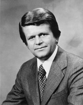 Robert Burren Morgan. The source of this file is the United States Senate Historical Office. I got permission (to post this photo on Wikipedia) over the phone, in person, from Ms. Heather Moore, the United States Senate Photo Historian. Ms. Moore can be reached at 202-224-6900. The url contact page for Ms. Moore is Ms. Moore said that the photo is in the public domain, but that credit for the photo does need to be posted as "credited to the U.S. Senate Historical Office." The URL where this photo was retrieved from is